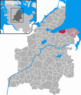 Locator maps of municipalities in Schleswig-Holstein - District Rendsburg-Eckernförde